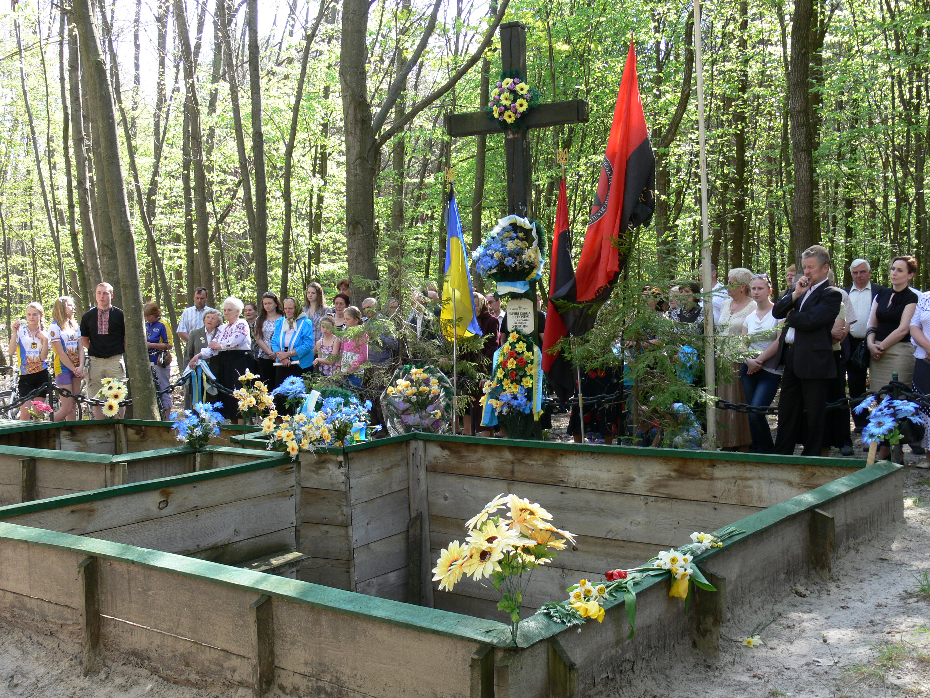 Повстанська криївка в урочищі Морозівське